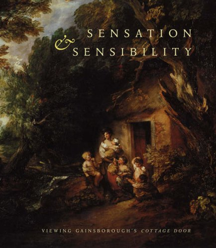 Cover of Sensation and Sensibility by Ann Bermingham